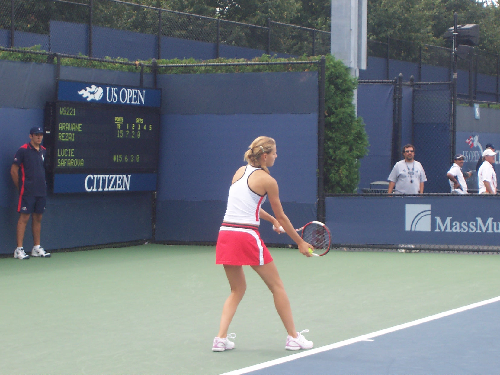 Lucie Safarova At The 2006 U.S. Open